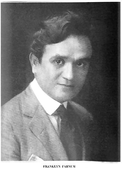 Franklyn Farnum ca. 1911